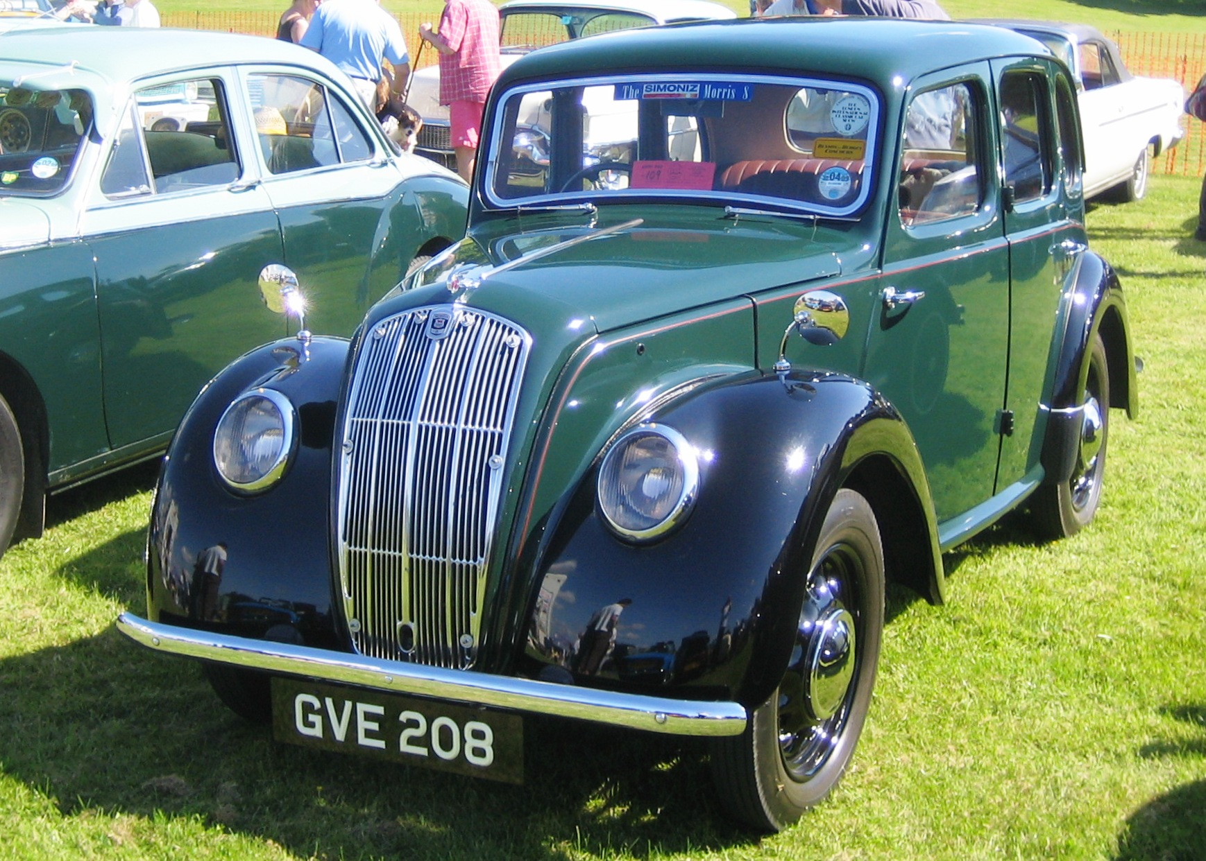 Morris 8